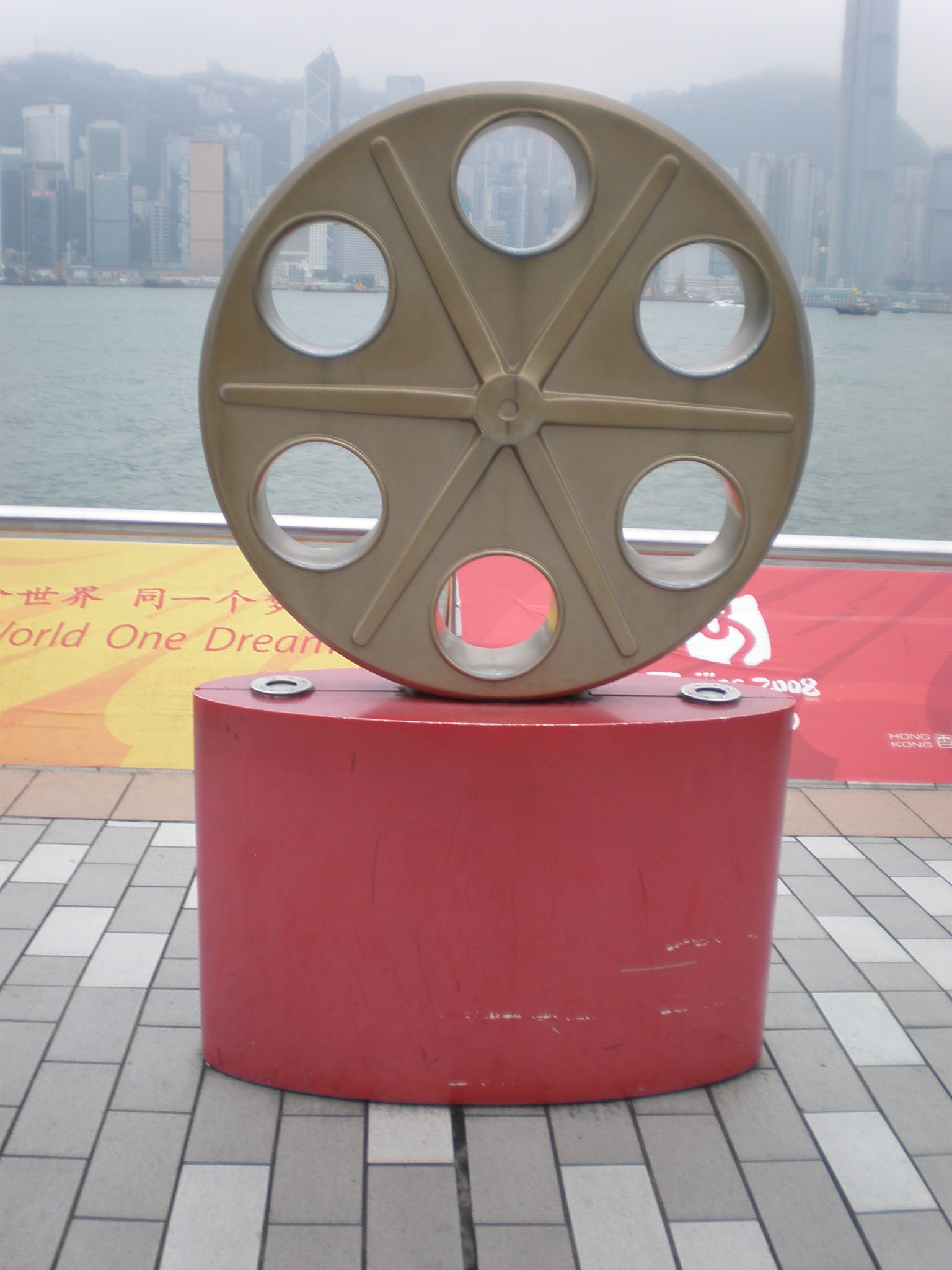 Statue of a film reel on the Avenue of Stars in Hong Kong.